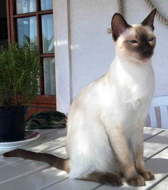 This is a Thai Old Style Siamese cat belonging from PHAITHAI Cattery